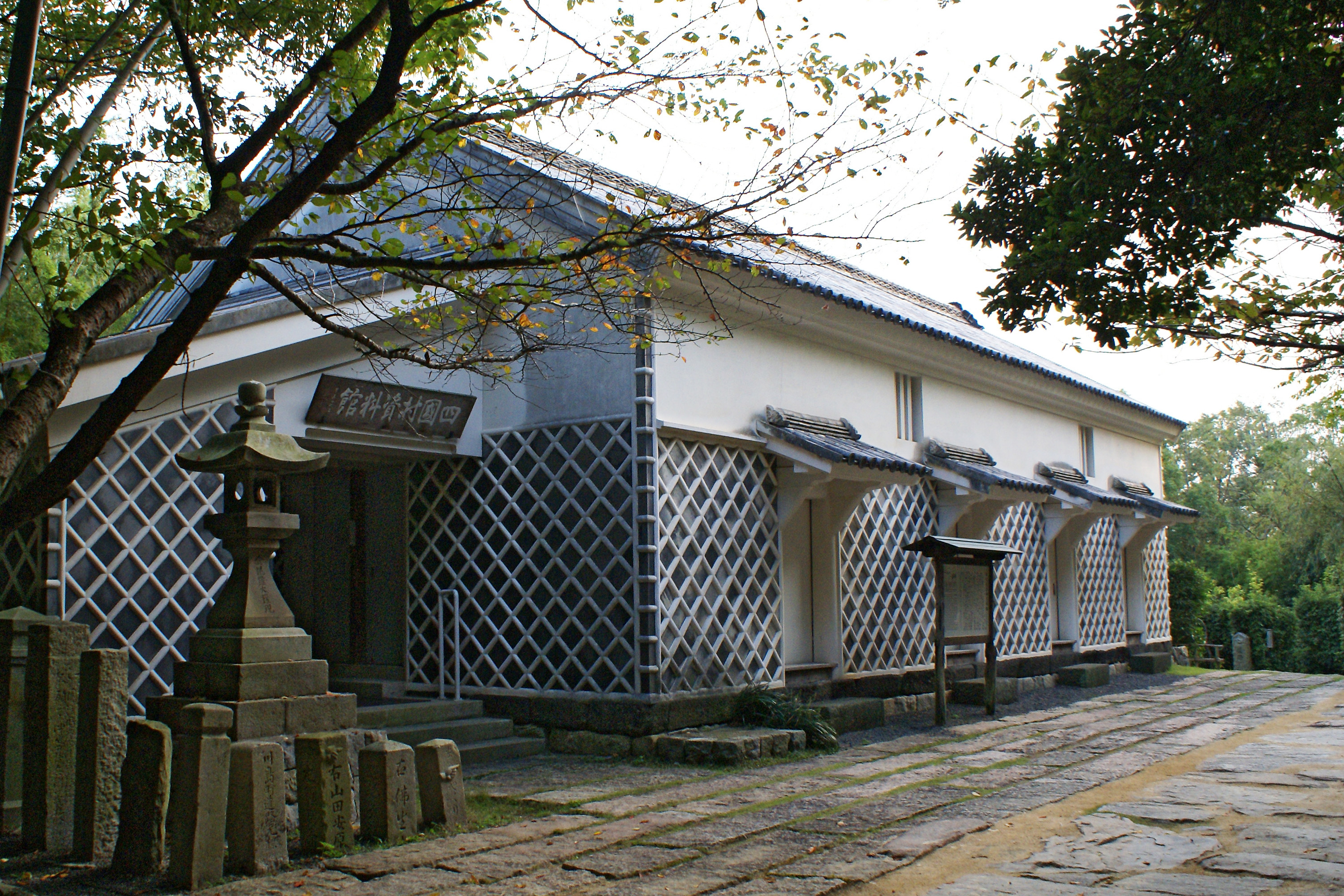 Shikokumura in Takamatsu Kagawa prefecture, Japan